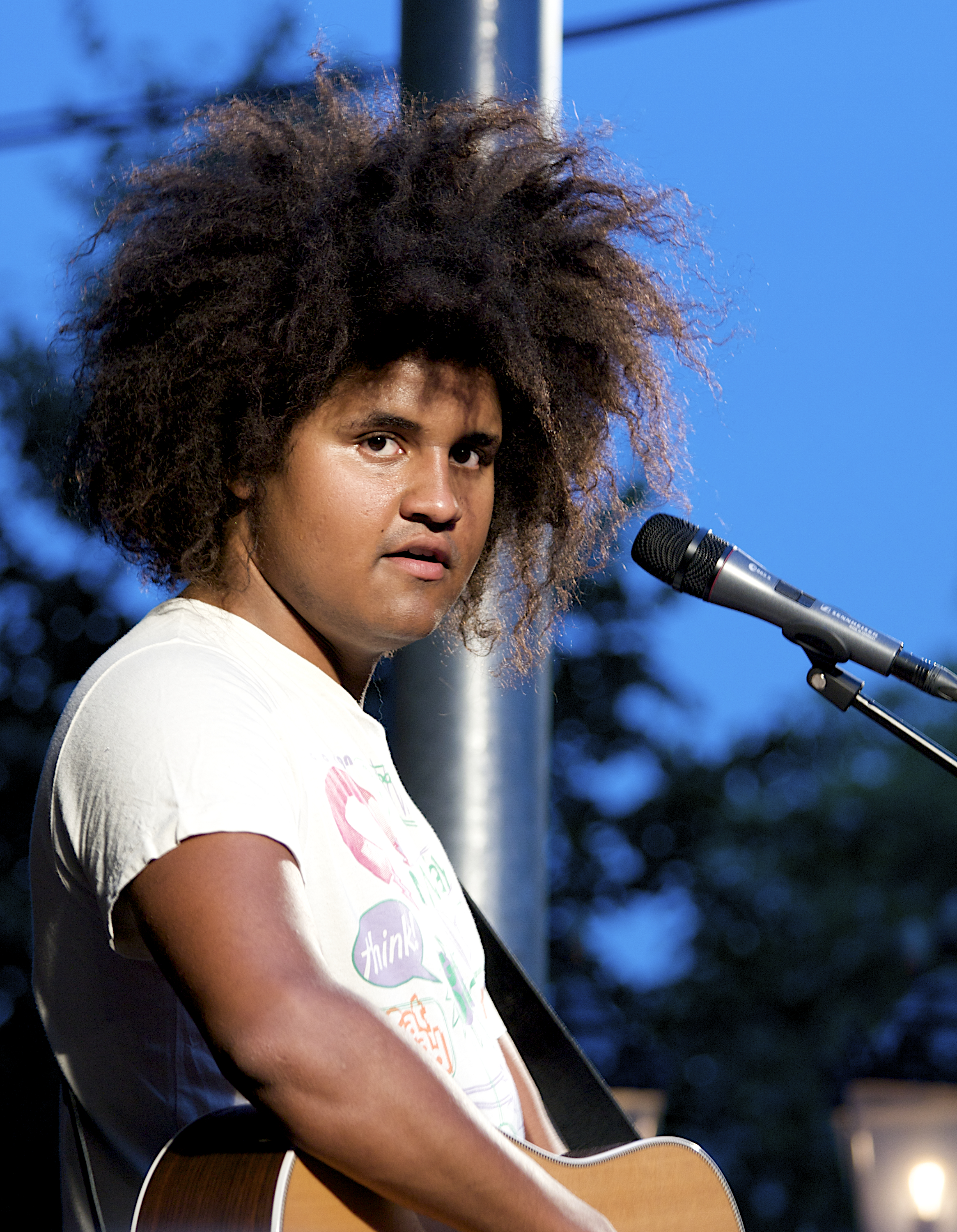 Danish singer Thomas Buttenschøn, at Karolinelund in Aalborg (Denmark).